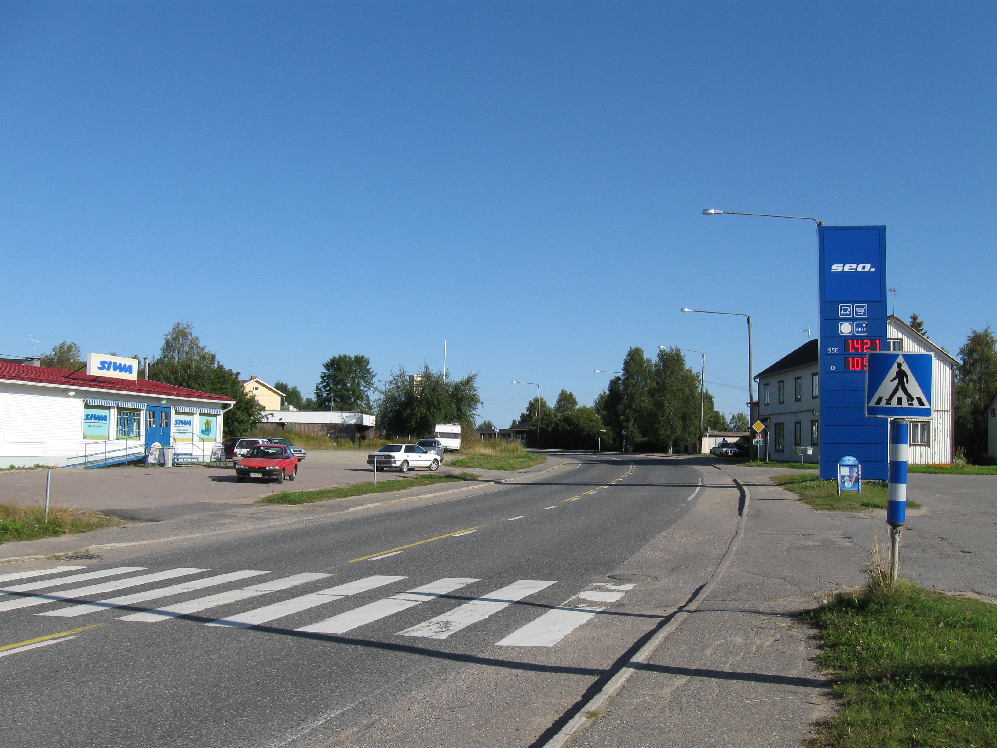 The centre of the Pelkosenniemi municipality, Finland. Highway 5 (E63) on the foreground.